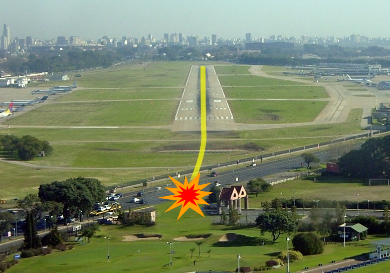 The approximate flight path of LAPA Flight 3142. This picture is an edited and improved version I made of User:Barcex's original.